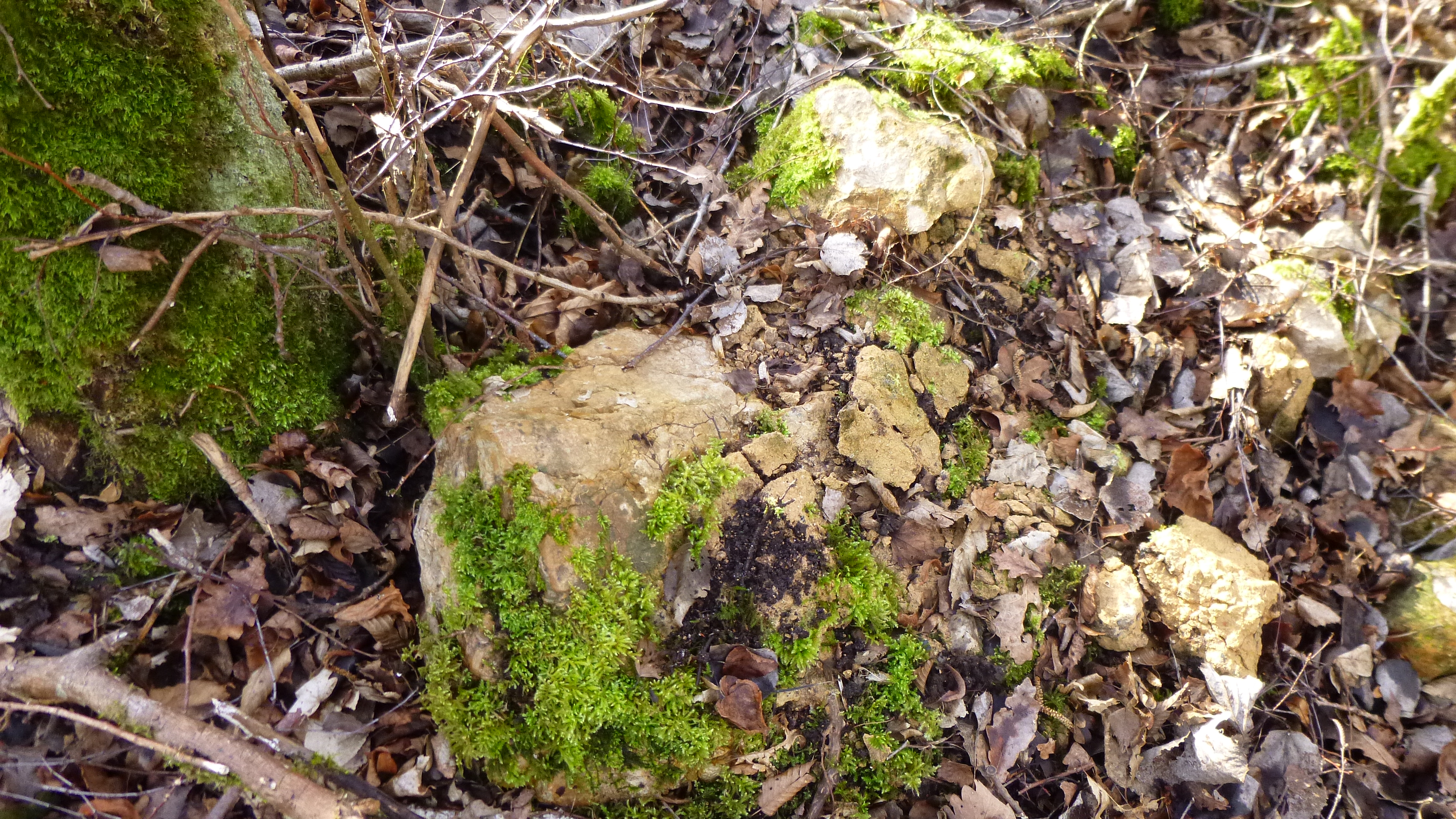 The "ferrier", Tannerre-en-Puisaye, Yonne, Burgundy, France. One of the few remaining blocks of limestone and some of its mortar, that made the Motte-Champlay fort that used to stand in the ferrier in the Middle Ages.